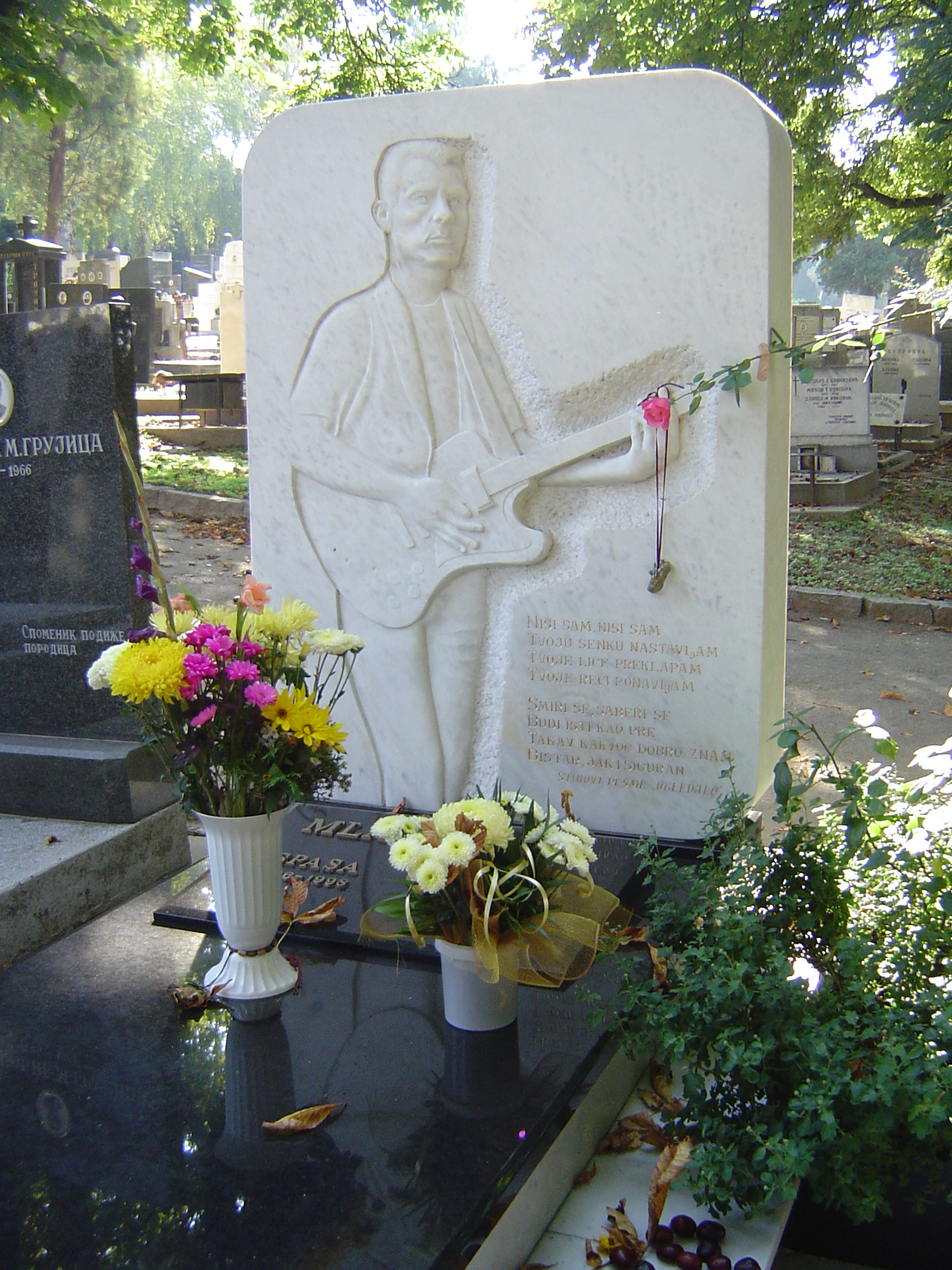 Tomb of Milan Mladenović, in New Graveyard in Belgrade.